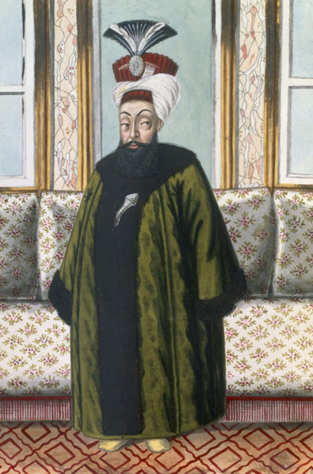 Portrait of Abdülhamid I, Sultan of the Ottoman Empire (1774-1789). The portrait has been printed using the Giclée process.